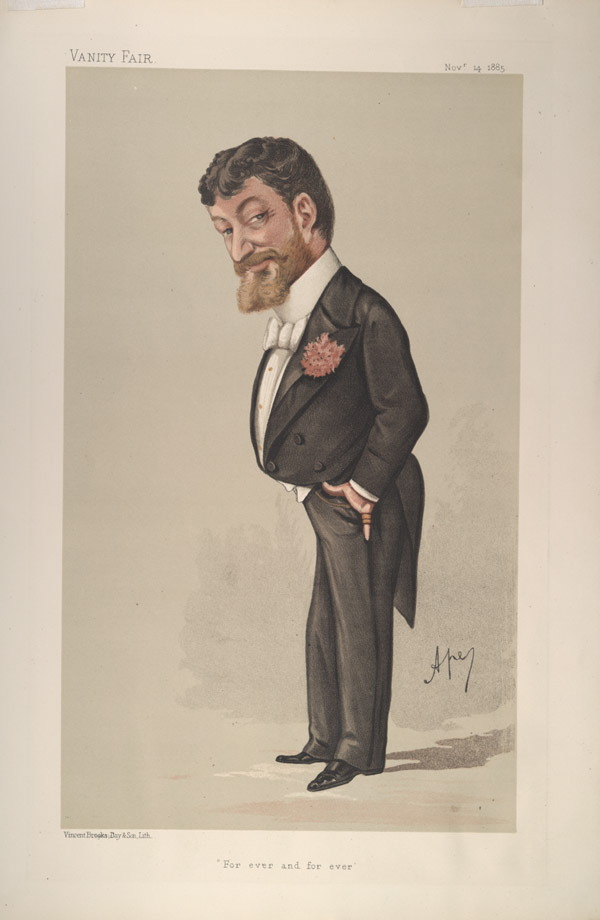 Men of the Day No.344: Caricature of Sig P Tosti. Caption reads: "For ever and for ever"